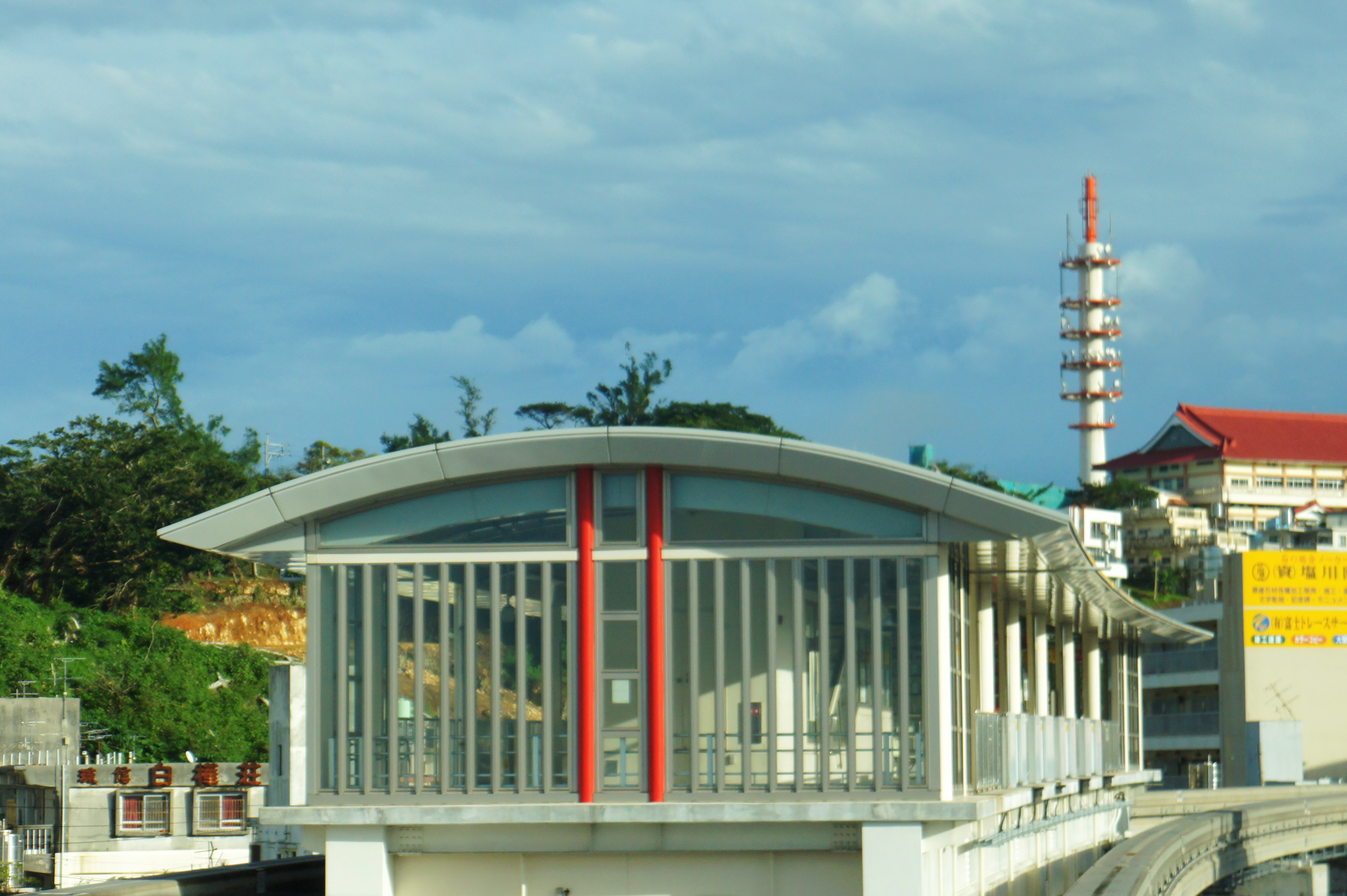 Gibo Station, Okinawa Monorail